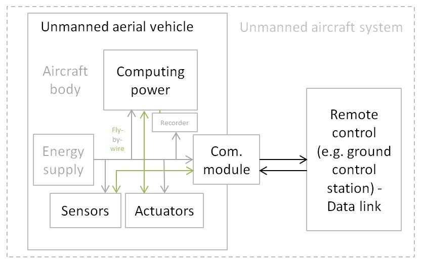 UAV Physical and hardware